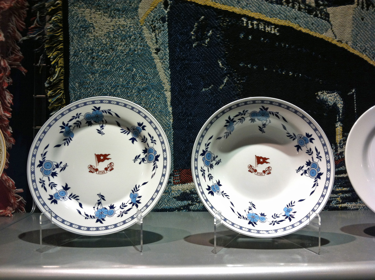 This photo is from the store for the permanent Titanic Exhibition at Luxor, and this also is the only area where photographs are allowed. These are replica dishes that would've been used for the Second Class passengers on Titanic and other White Star Line ships of the era, using Delft Blue motifs. In the background are replicas of blankets that would've been provided as Third Class bedding. The rest of the exhibition, staged by RMS Titanic Inc. and previously featured in traveling exhibitions across the US until coming to Luxor in 2008, consists of artifacts recovered from the wreck (including a large hull section!), personal items, replicas of First and Third Class staterooms and the Grand Staircase, and an iceberg that gives visitors an idea of how cold the North Atlantic water was at the time of the ship's sinking. At $35 per person for admissions, it was way overpriced in my opinion, but having gotten a half-price ticket at a discount booth earlier in the day and considering that it was the week of the 100th anniversary of the sinking, it made sense for me to check the exhibit out.